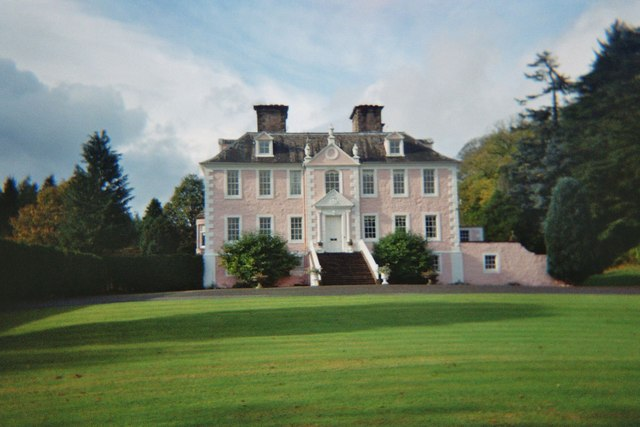 Craigdarroch House